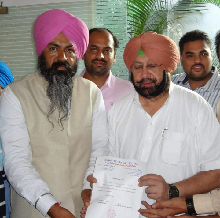 Gursimran-singh-Mand-Captain-Amrinder